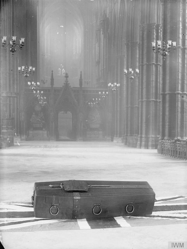 The Unknown Warrior at Westminster Abbey, November 1920 The coffin of the 'Unknown Warrior' in Westminster Abbey, London, 7 November 1920.